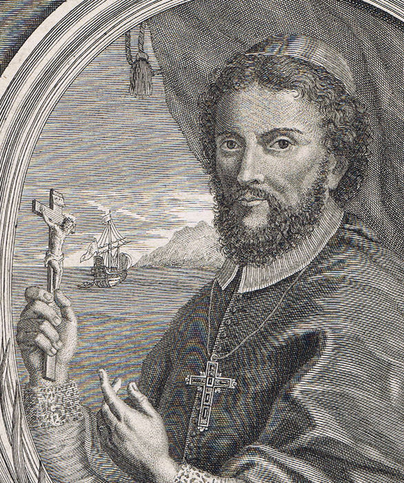 Charles Thomas Maillard de Tournon